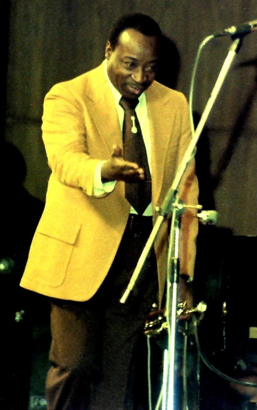 1977 Dave Bartholomew. Rosengarten Mannheim, Germany.